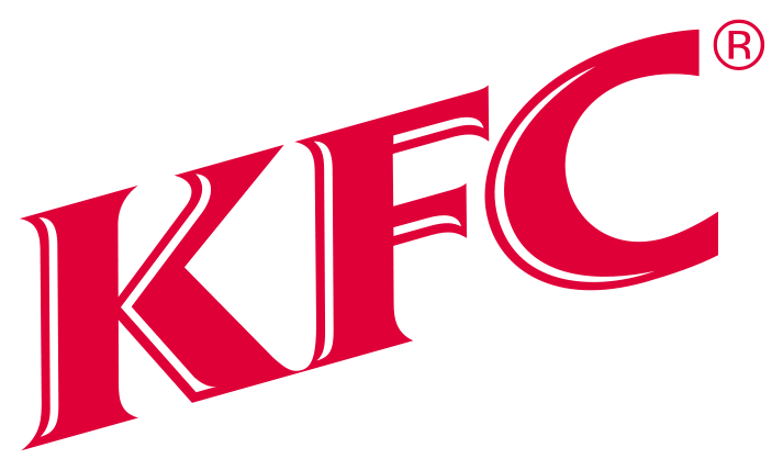 Logo of the Kentucky Fried Chicken Corporation.